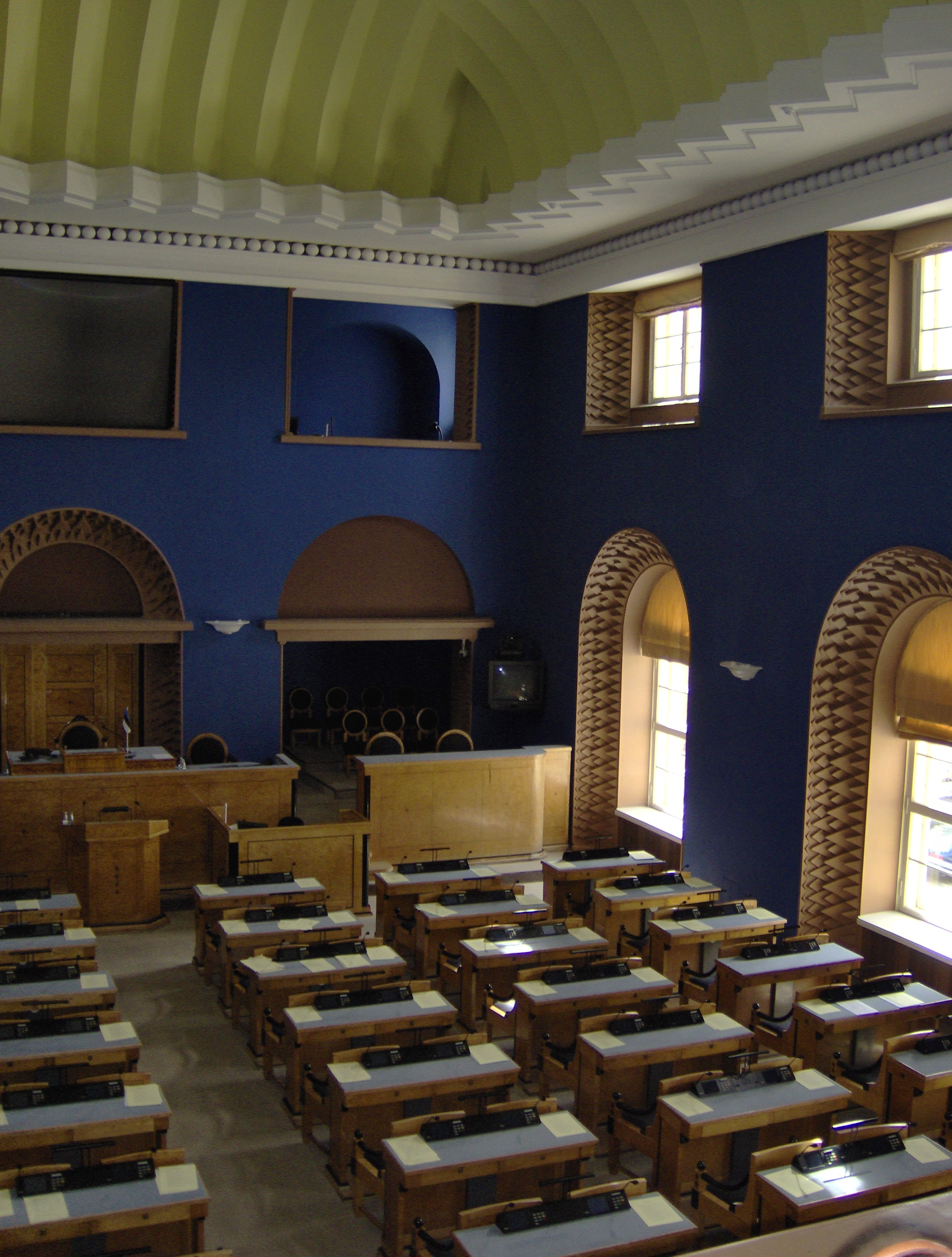 Estonian Parliament in Tallinn